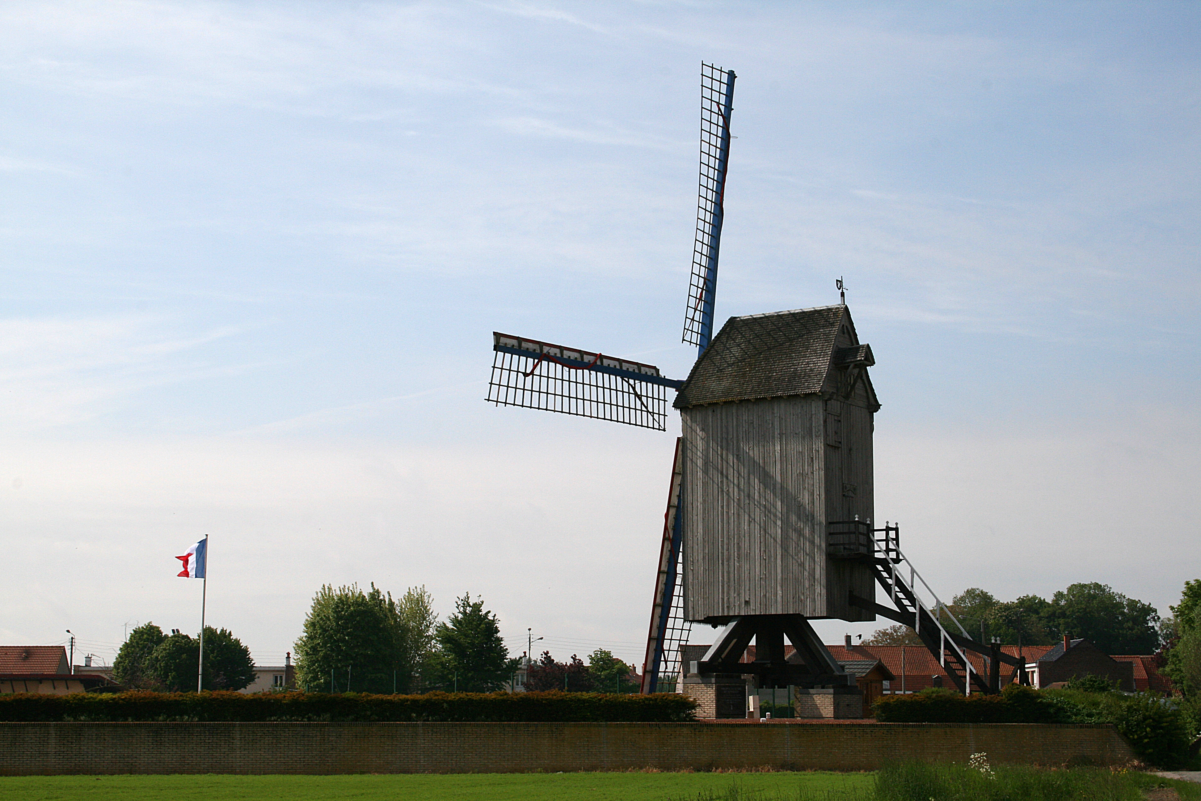 Windmill known as "Moulin du Nord", "Le Spinewyn" or even "Moulin de la Victoire" considered to be the oldest windmill of this type in France, probably built in the 15th century and restored in the 20th century in Hondschoote , French commune in the Nord department in Hauts-de-France.